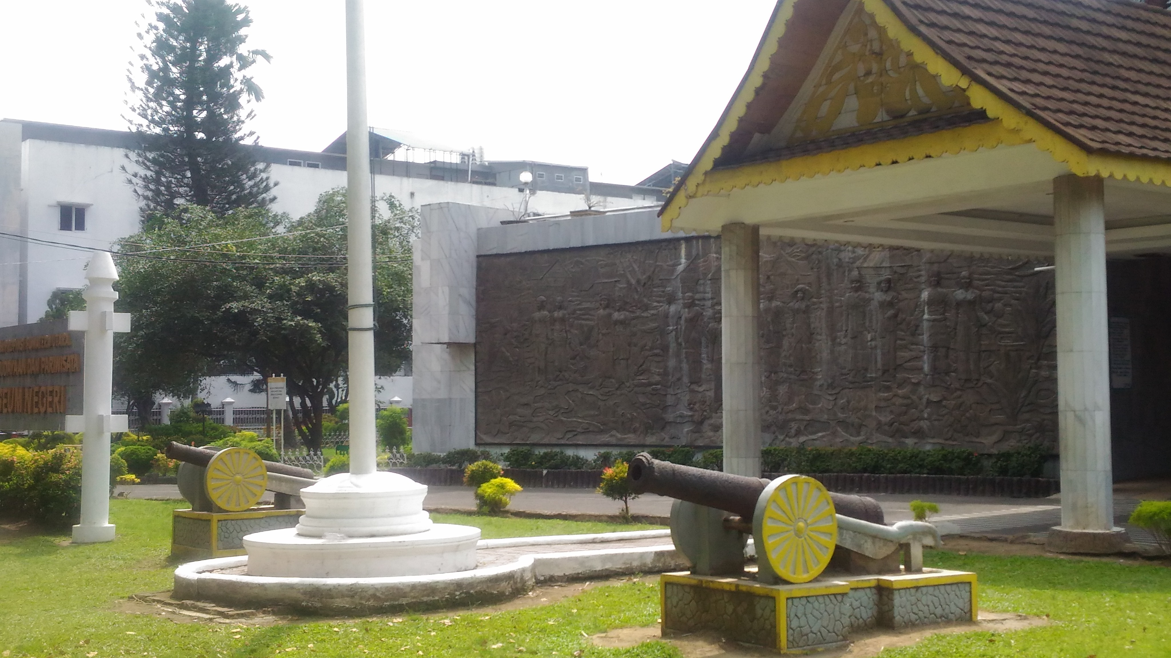 A pair of cannons on display at the front yard of North Sumatra Provincial State Museum